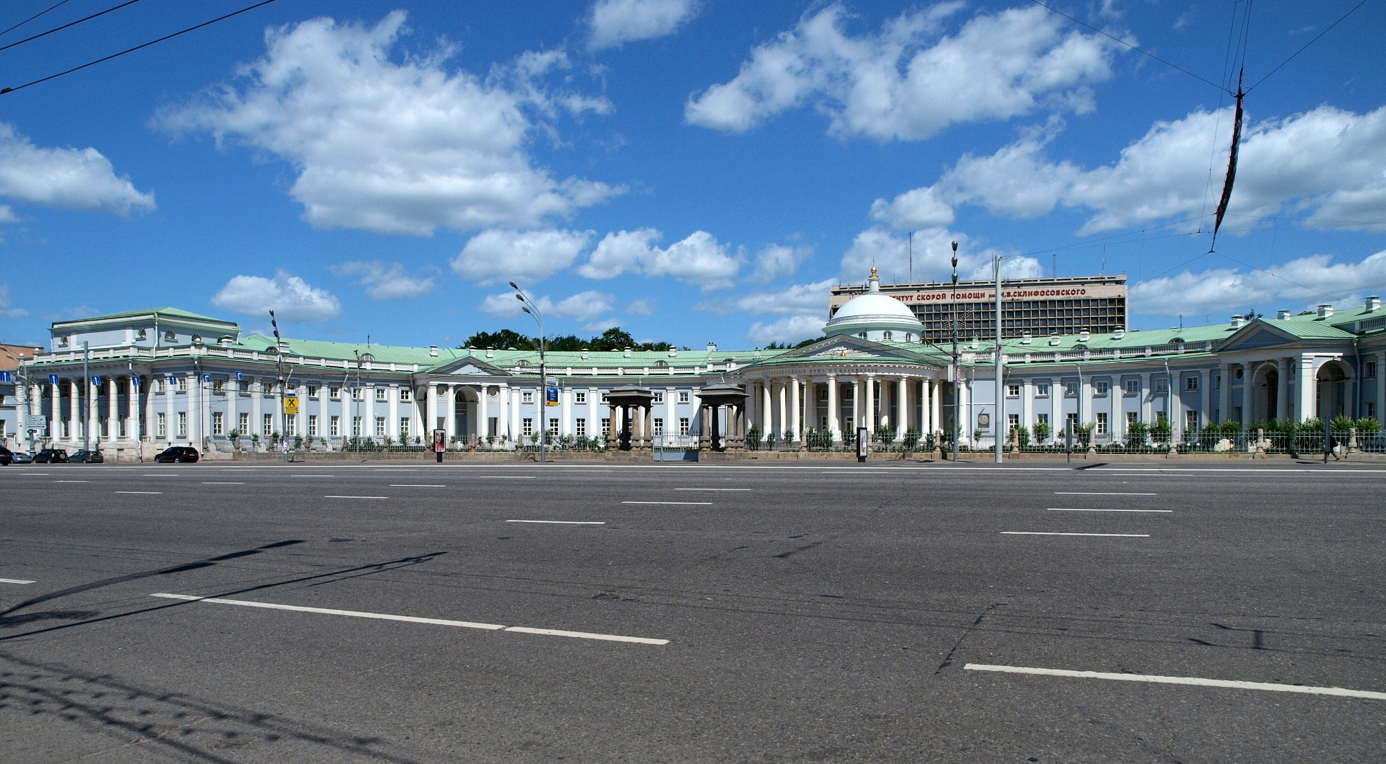 Bolshaya Sukharevskaya Square, Moscow.